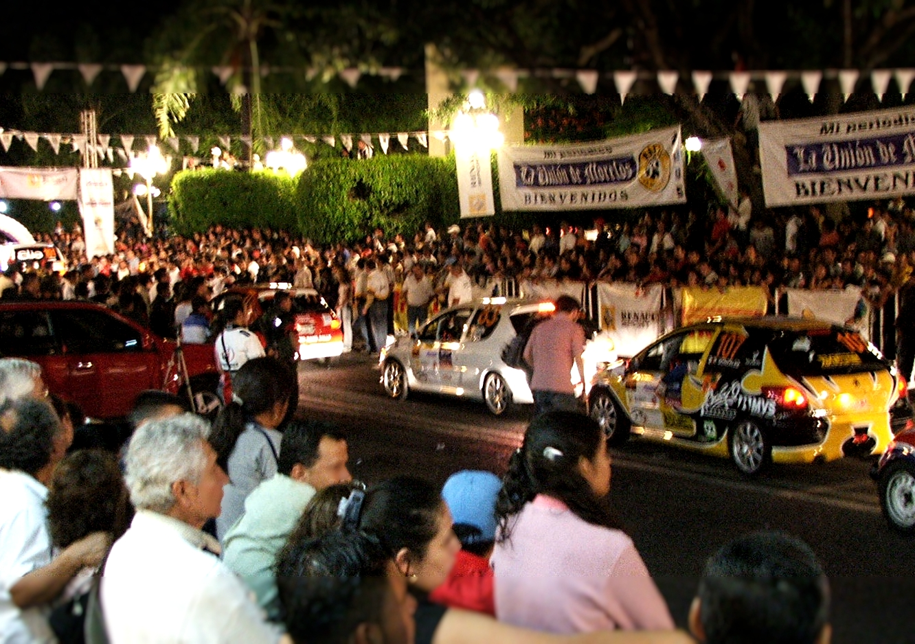 Inaugural start of Rally de la Media Noche in 2005 - Mexico